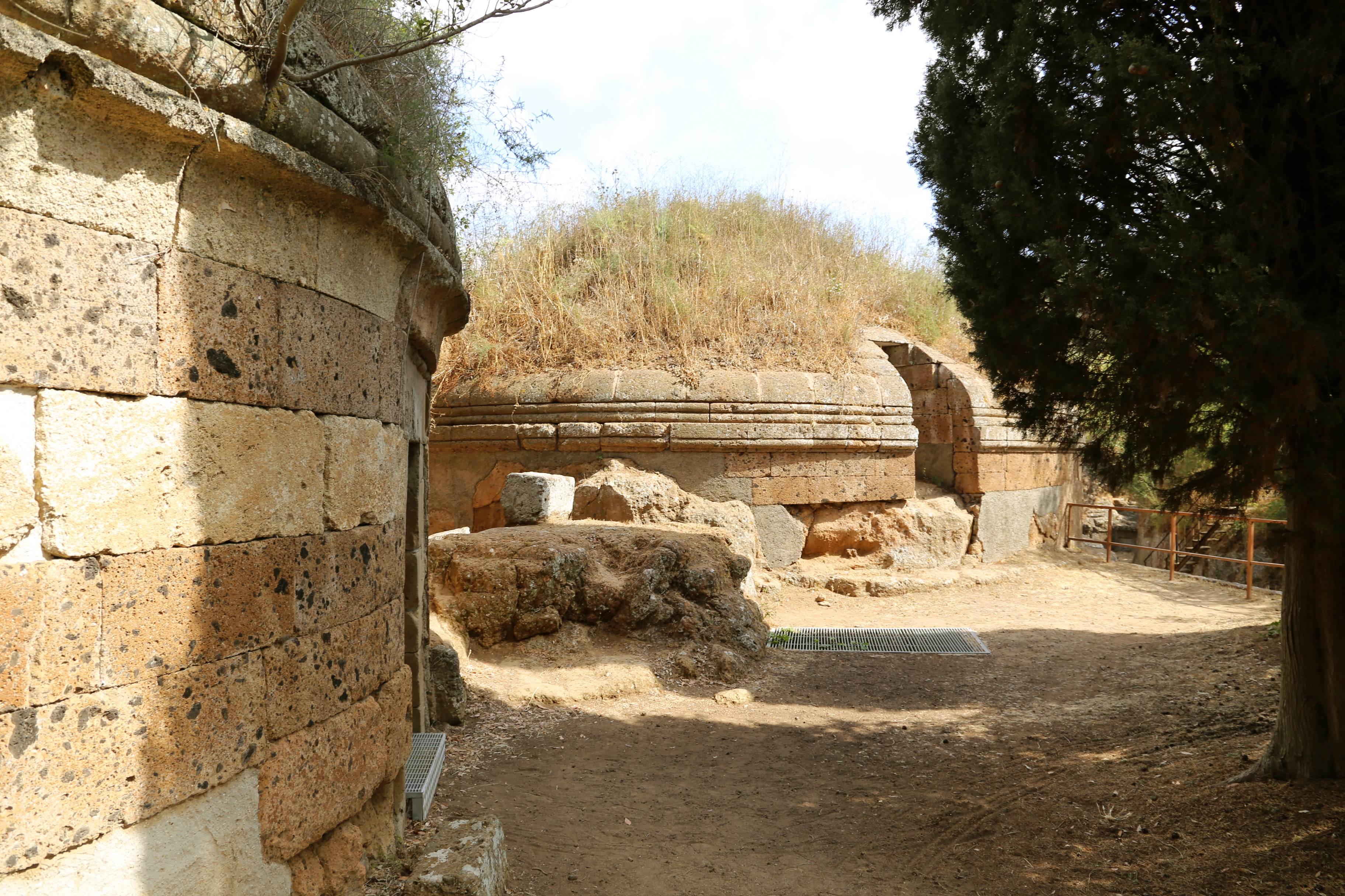 Banditaccia (Cerveteri)